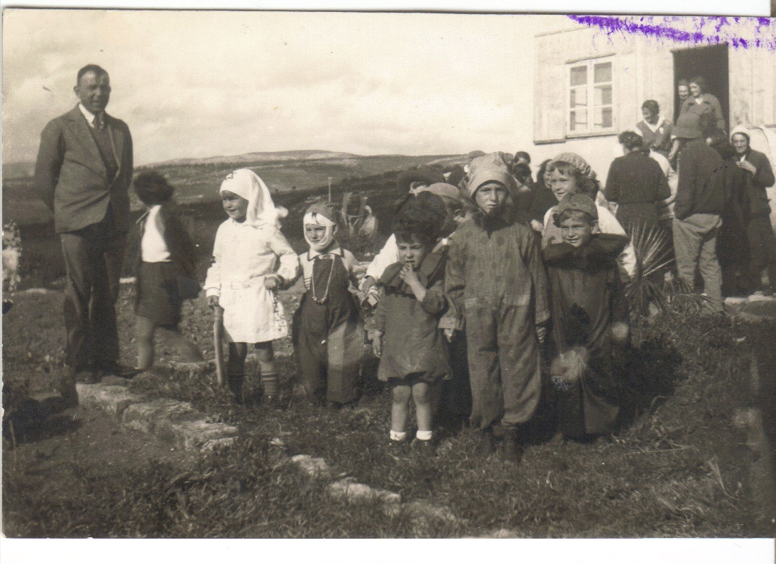 Kindergarten children in costume for Purim - go for a walk.